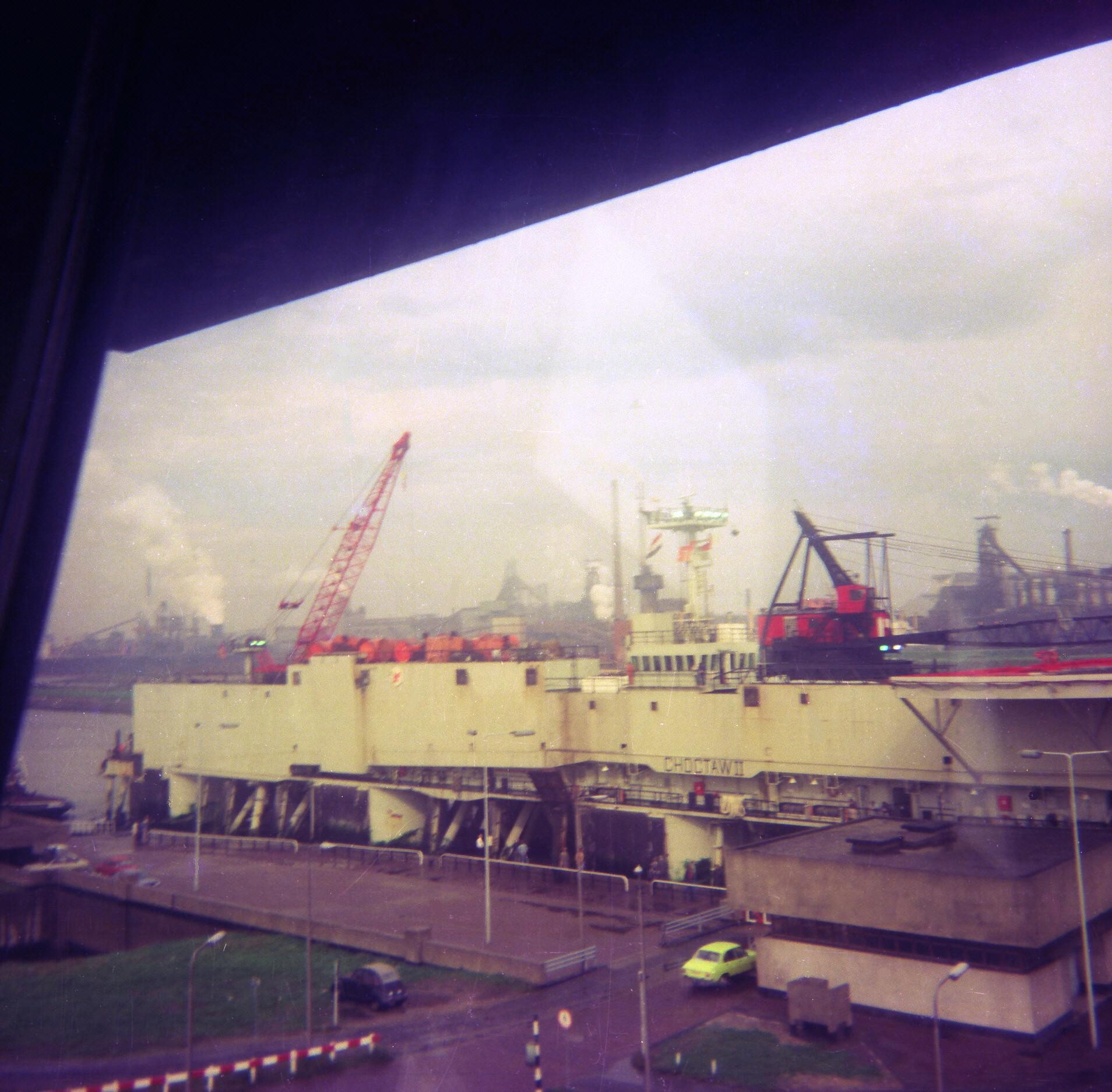 Choctaw II IJmuiden 1976 gaat de Noordersluis in in the lock at ijmuiden photo scanned from a 127 film negative this is now Pipe laying platform HYUNDAI 423 Registered owner: HYUNDAI HEAVY INDUSTRIES Flag: Vanuatu Port of Registration: Port Vila IMO number: 7324821 Year of build: 1974 Builder: BLOHM & VOSS HOLDING AG Previous Names: Name From Date To Date OHI 423 27 Nov 1992 12 Nov 1996 DLB 423 31 Aug 1990 27 Nov 1992 BAR 423 01 Jan 1981 31 Aug 1990 CHOCTAW II 01 Jan 1981